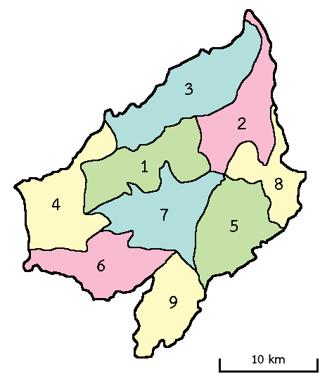 Thai: แผนที่แสดงตำบลของอำเภอหนองพอก